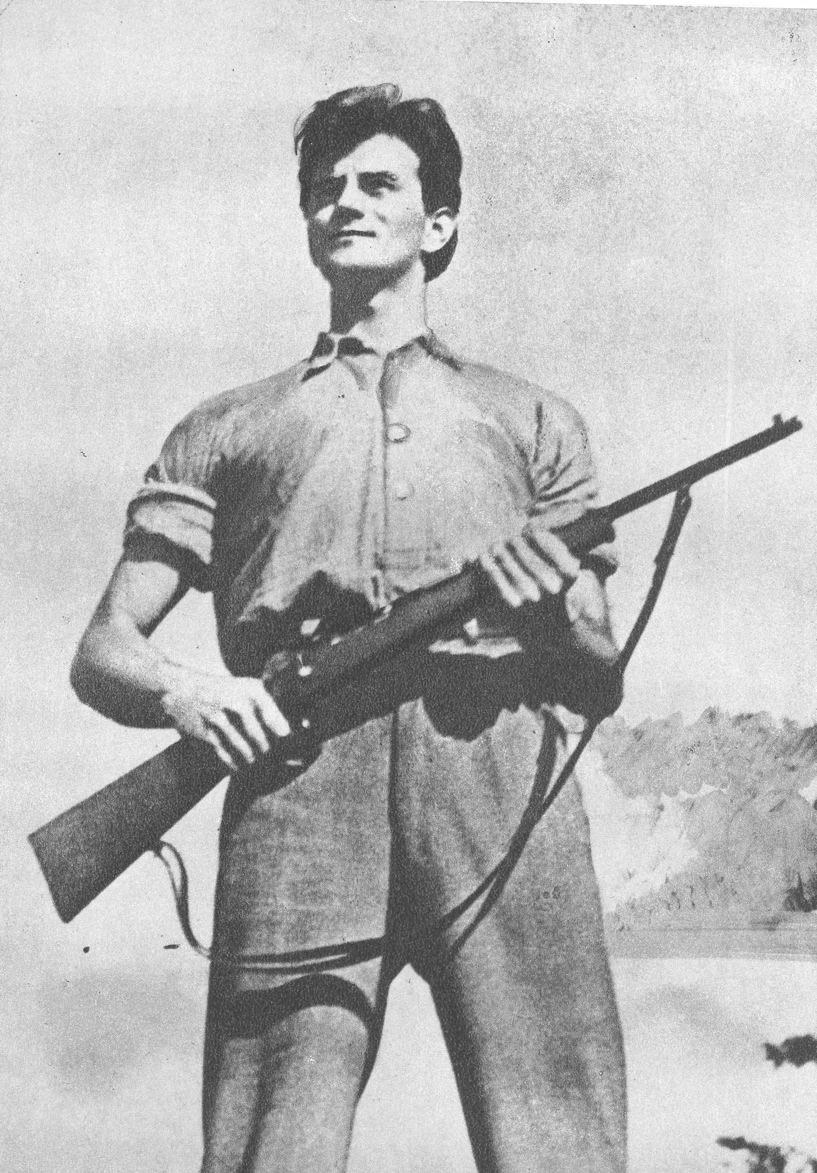 Slobodan Princip Seljo